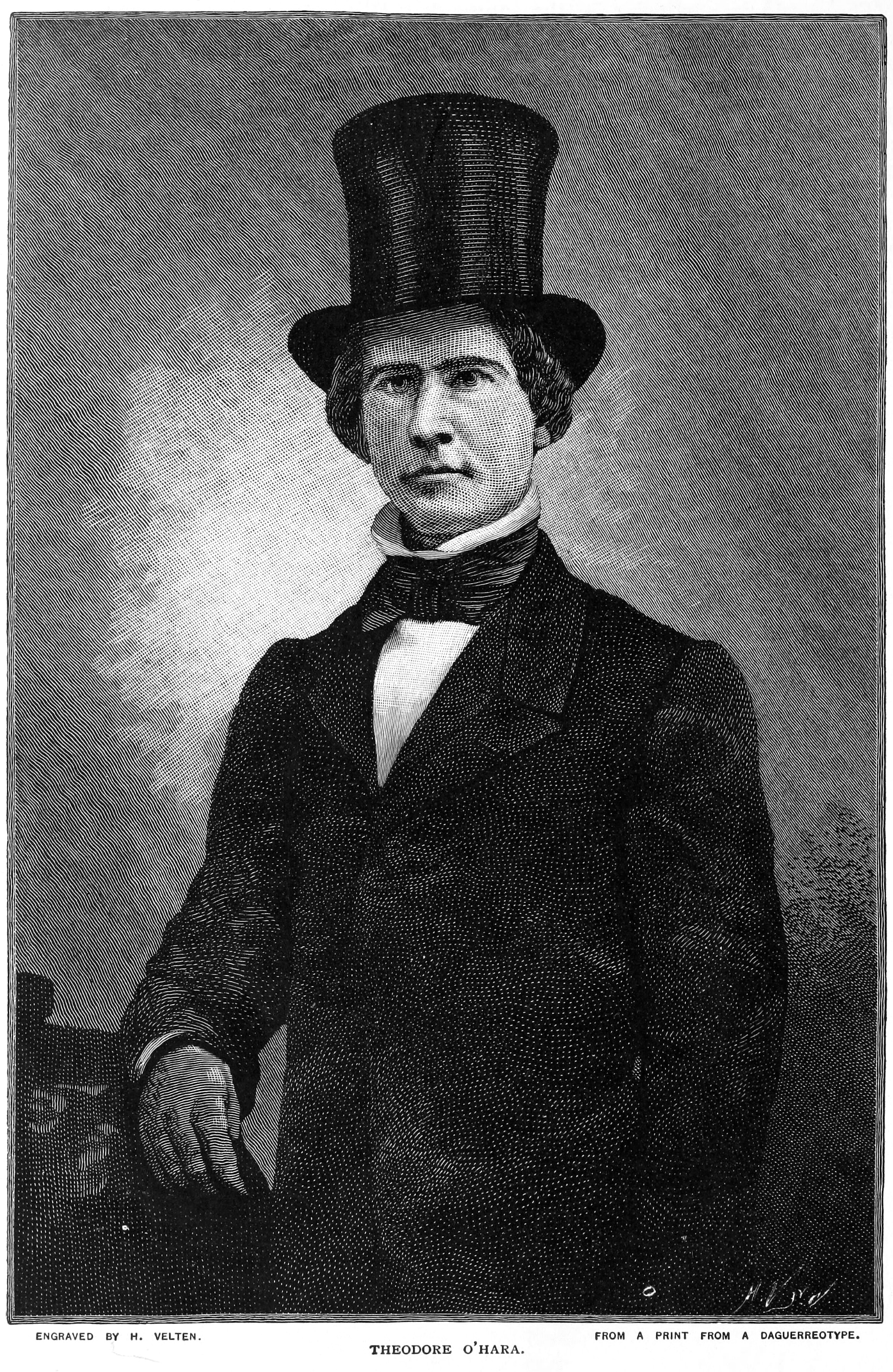 Portrait of Theodore O'Hara engraved from a daguerreotype